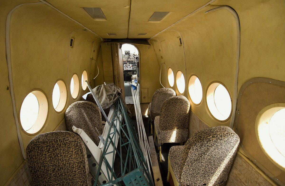 Salon of the passenger An-2 plane. RA-07326